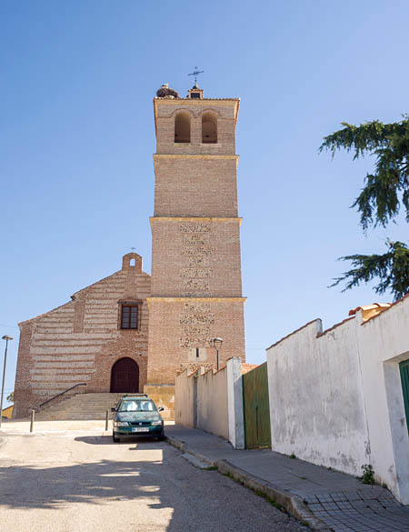 Iglesia de San Pedro Apóstol en Ribatejada.